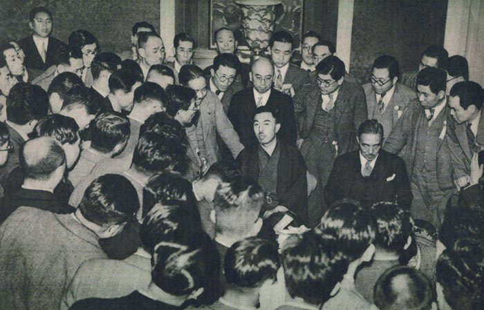 Fumnimaro Konoe (1889–1945), then the President of the House of Peers, meets the press at his private residence after having accepted an imperial order to form a new government, 2 June 1937. Konoe was one of the most popular prime ministers among the press and the general public in the pre-war Japan.